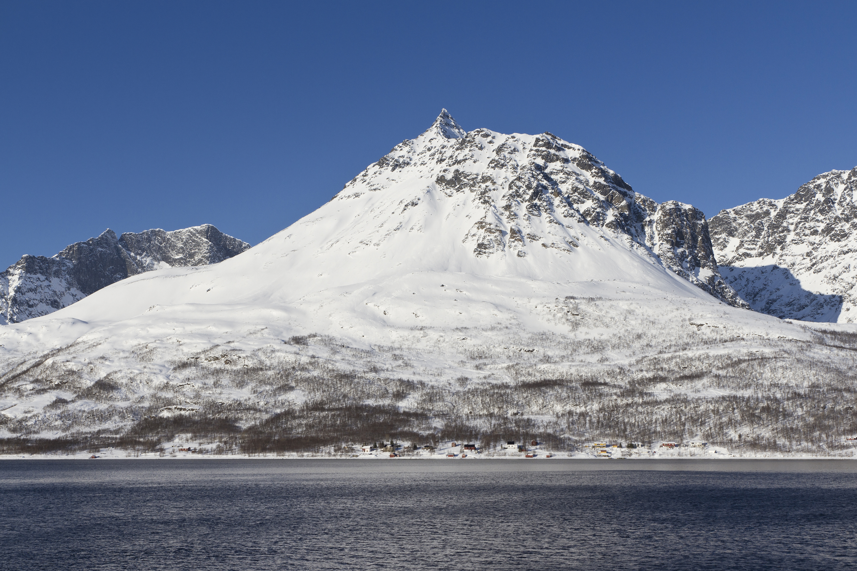 Southeast face of Maursundtinden (1,099 m) as seen over Maursundet in 2012 March. Maursundtinden is located in the island of Kågen in the municipality of Skjervøy, Troms, Norway.